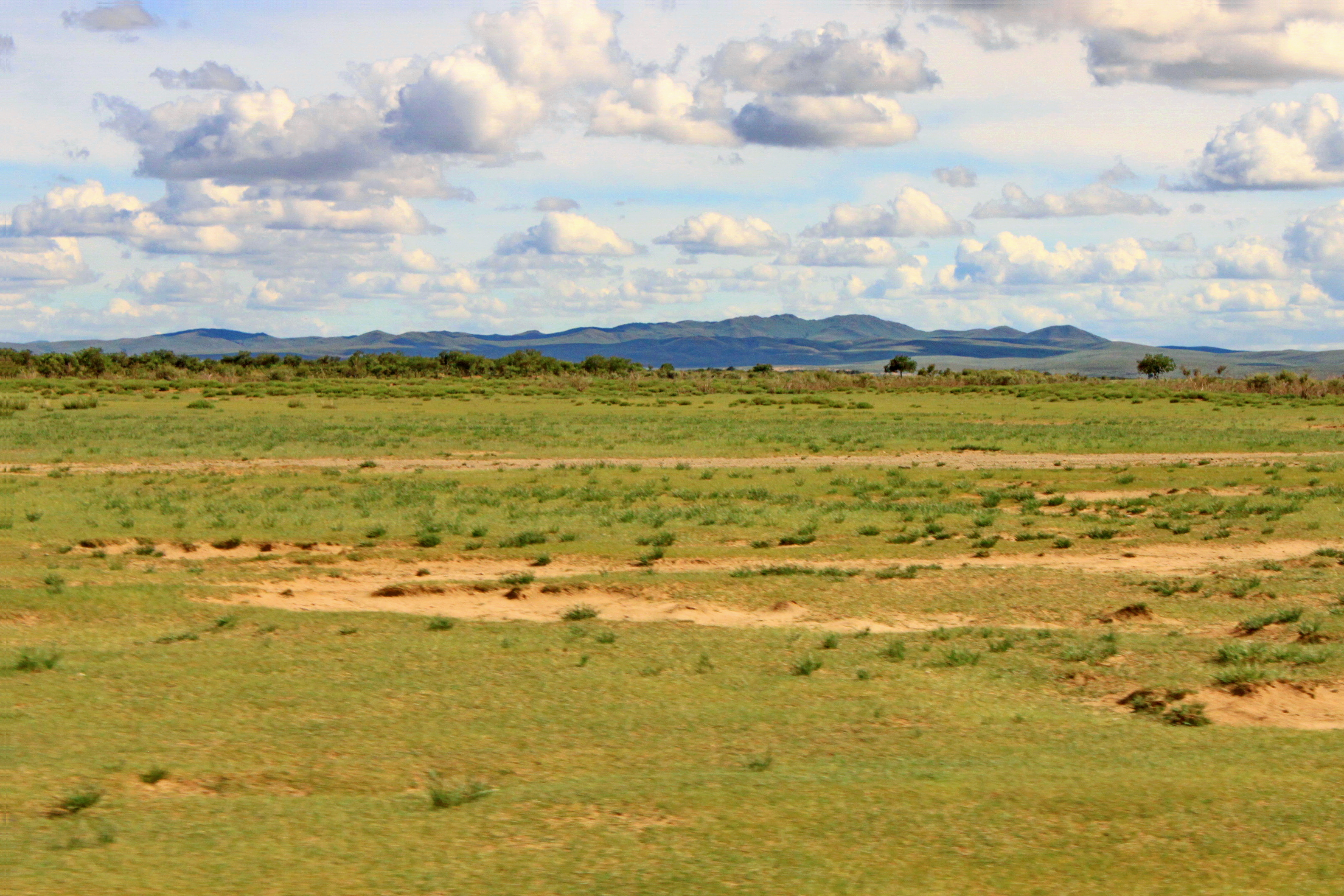 Steppe in the central Mongolia on the road between Ulan Bator and Kharkhorin.